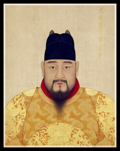 Portrait of Emperor Yingzong of Ming Dynasty China